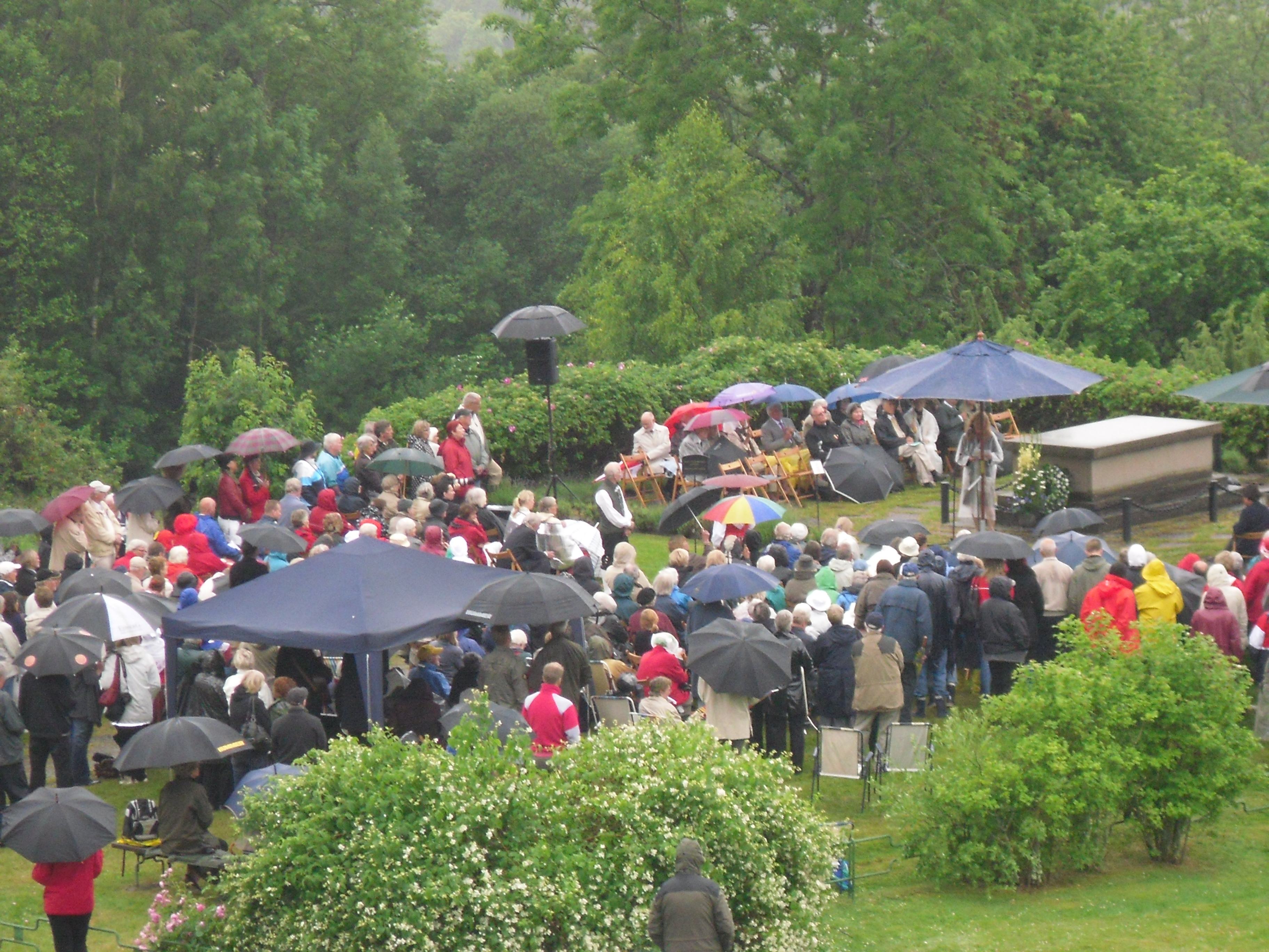 Kristina Lugn at Övralid 6th of July 2009